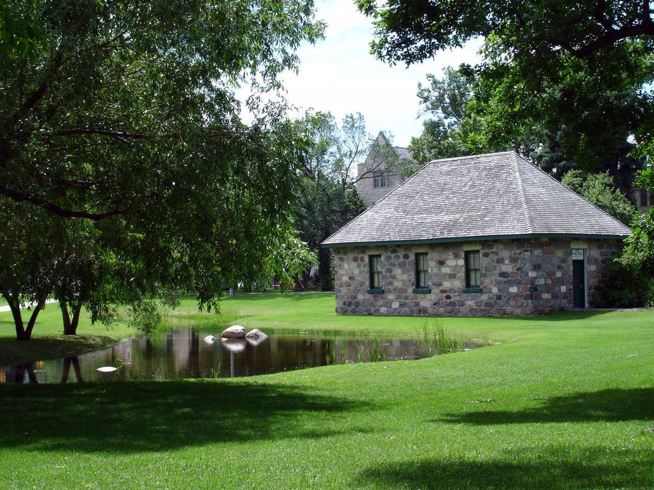 The original Victoria School, Saskatoon's first school, built in 1888 by Alexander (Sandy) Marr. Originally located at Broadway Avenue and 12th Street, it was relocated to the University of Saskatchewan campus in 1911. To avoid confusion with the current Victoria School, built in 1909 on the original site, this is now referred to as the Little Stone Schoolhouse. Located along Sk Hwy 5